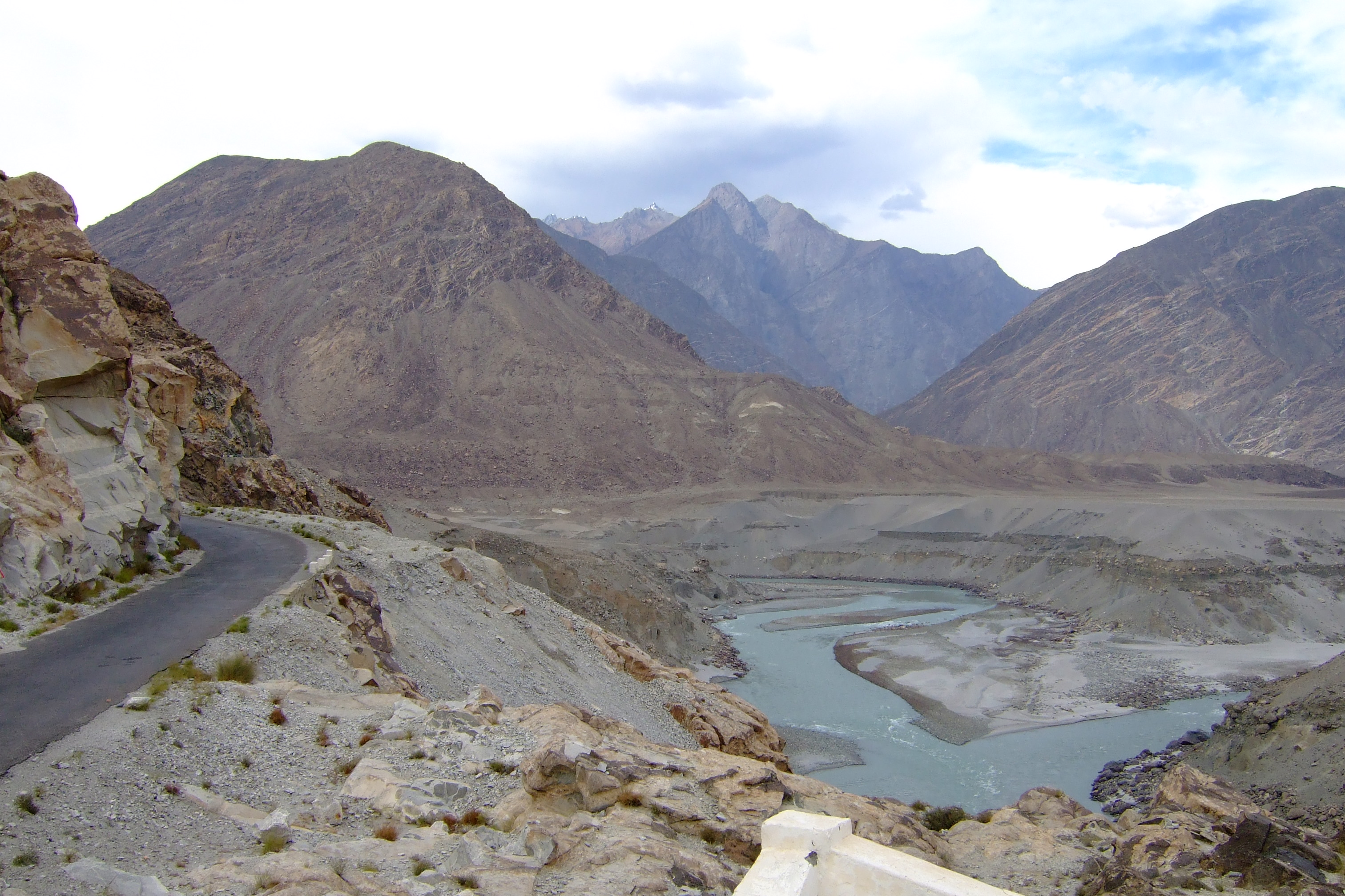 The Karakoram Highway stretches some 700 kilometers from Islamabad, through the Karakoram mountains and into China. It is an incredible feat of engineering, cutting its way through deep valleys and plains into the mountains of northern Pakistan, providing communication between the districts Diamer, Ghizar, Gilgit and Balistan, with the major cities of Mansehra, Abbattabad, Haripur, Islamadad and Rawalpindi. This is the turn of Karakoram Highway near the junction of three mountain ranges Karakoram, Himalayas and Hindukush.